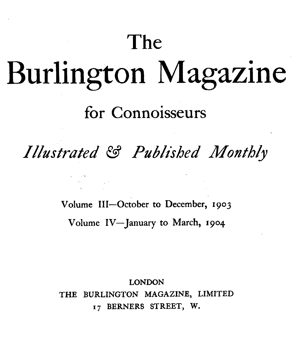 Title page of The Burlington Magazine 1903-1904